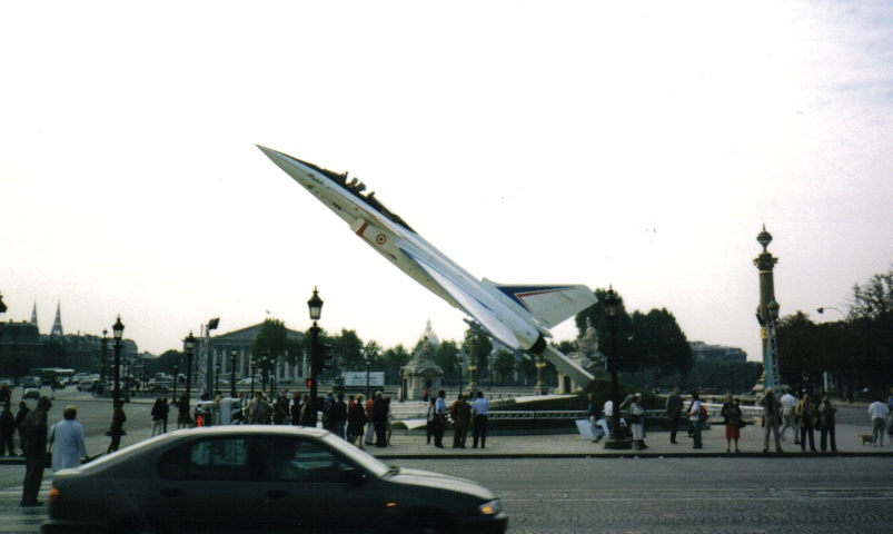 Prototype of Rafale A seen here in Paris in september 1998 for Champs d'Aviation aero exhibition.